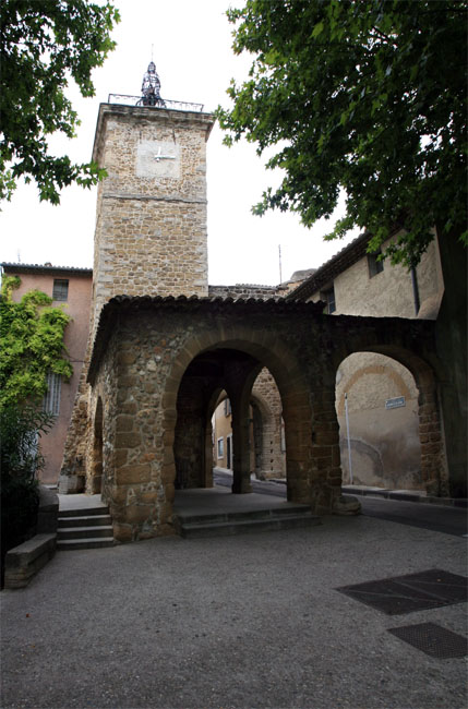 the village of Aubignan, Vaucluse, France